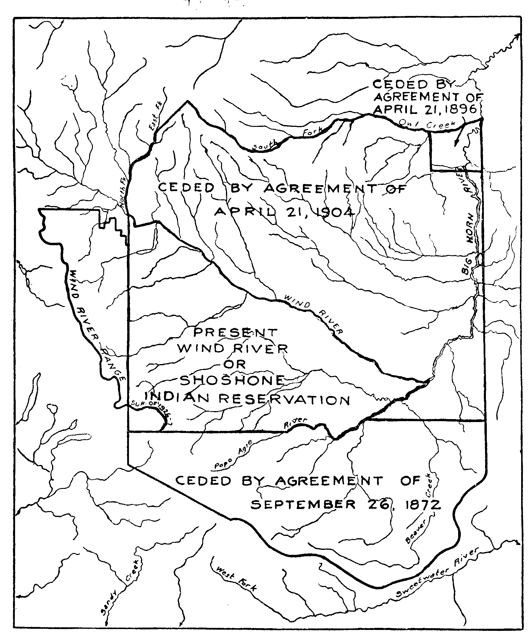 Map of the Eastern Shoshone Reservation (Wind River Reservation) and the land cessations